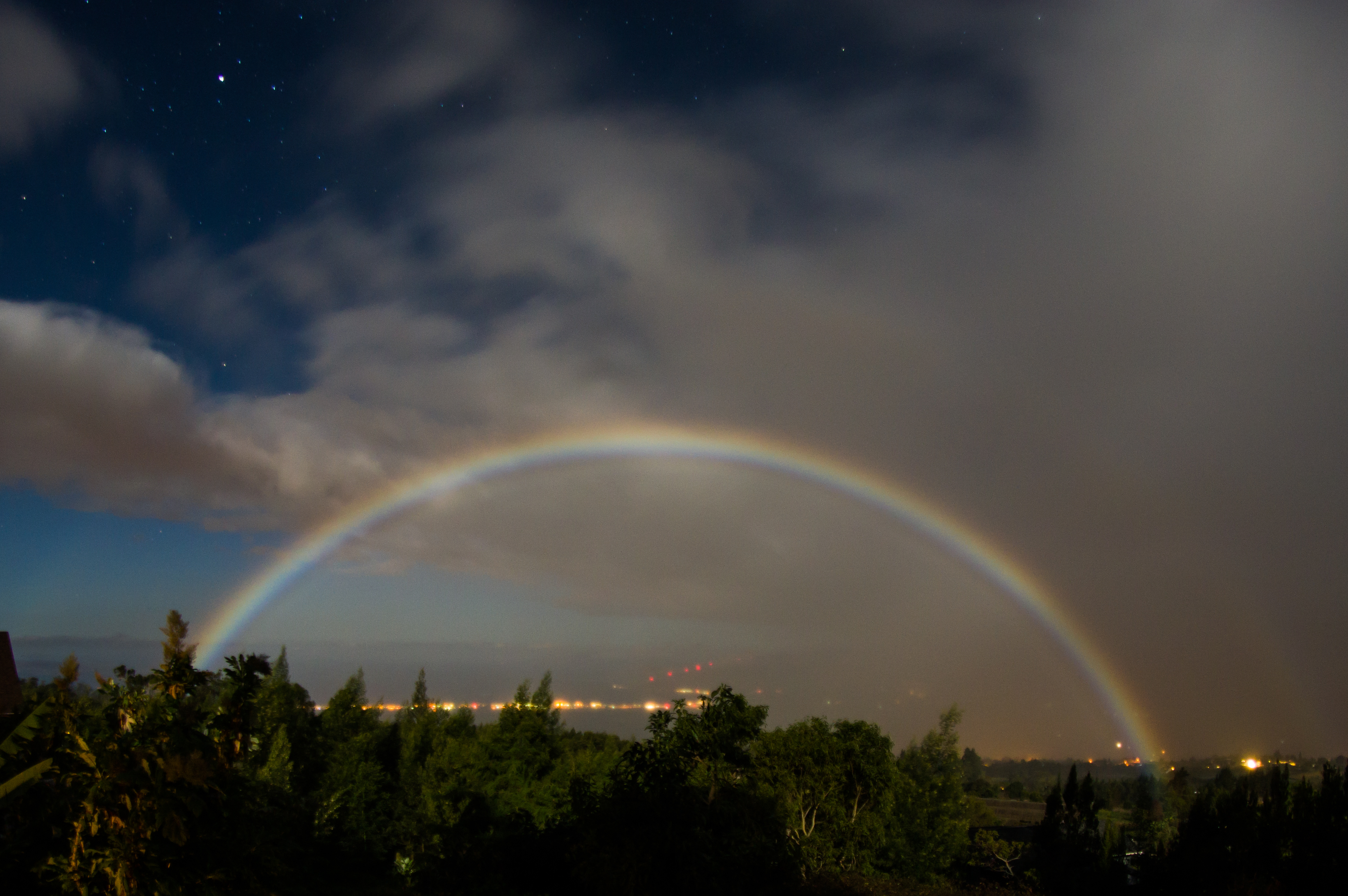 A moonbow over the town of Kihei, seen from Kula, on Maui, Hawaii, US.